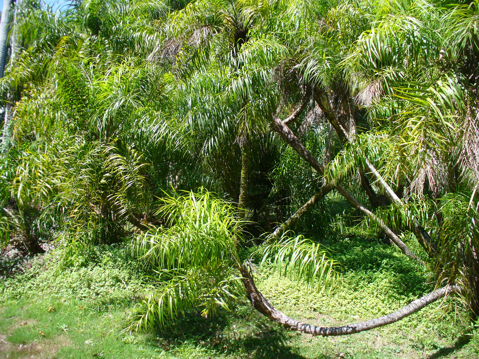 Sitio Burle Marx, outside Rio de Janeiro, Brazil. Home of the famous artist and landscape designer Roberto Burle Marx. Visited on IPS Biennial tour.